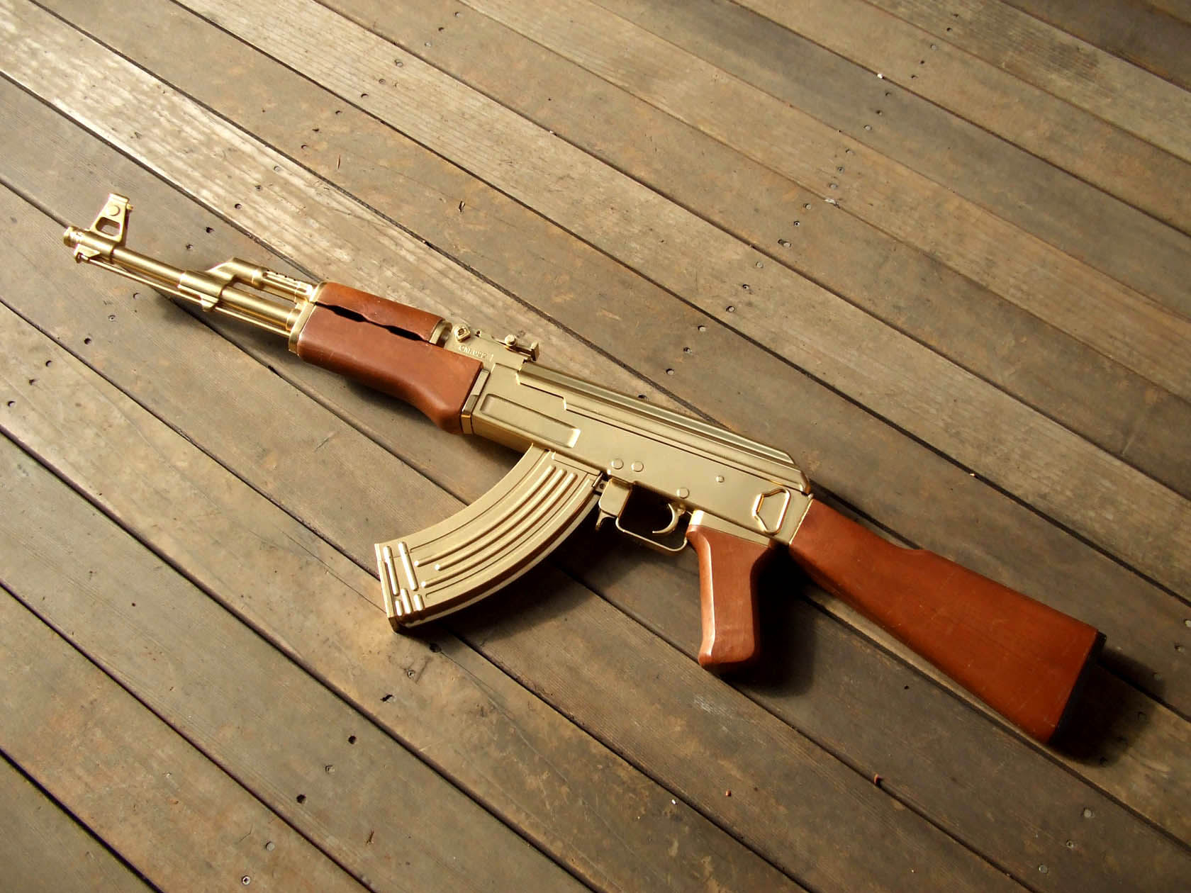 A modified CYMA CM.022 AK-47 airsoft gun. I used metallic gold spray paint.